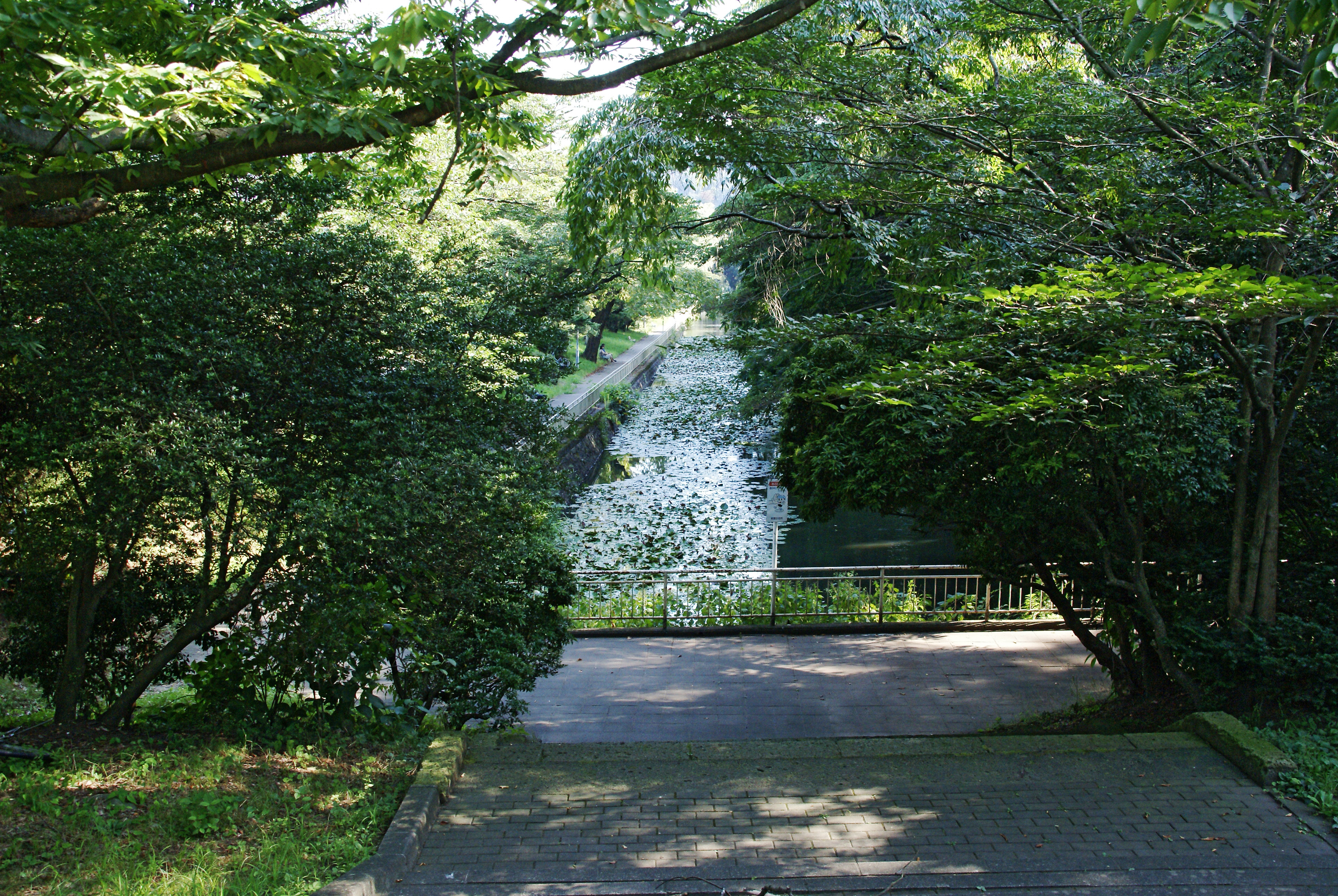 Aoba-yama park in Sendai, Miyagi prefecture, Japan